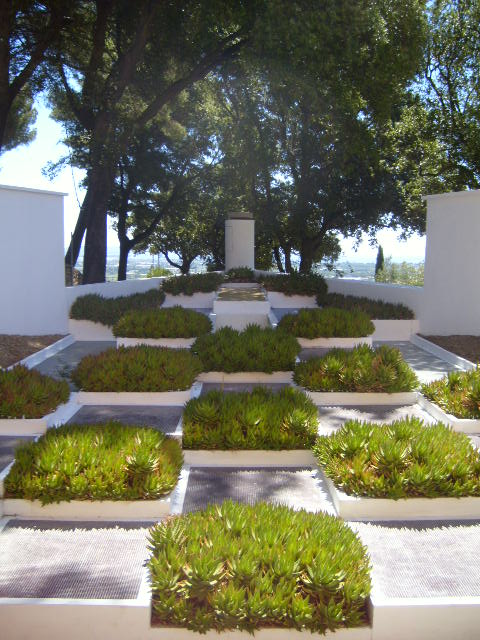 View of the cubist garden (1926) of the Villa Noailles, Hyeres, France